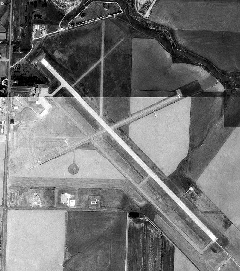 USGS digital orthophoto of Goodland Municipal Airport (Renner Field) in Goodland, Kansas, United States